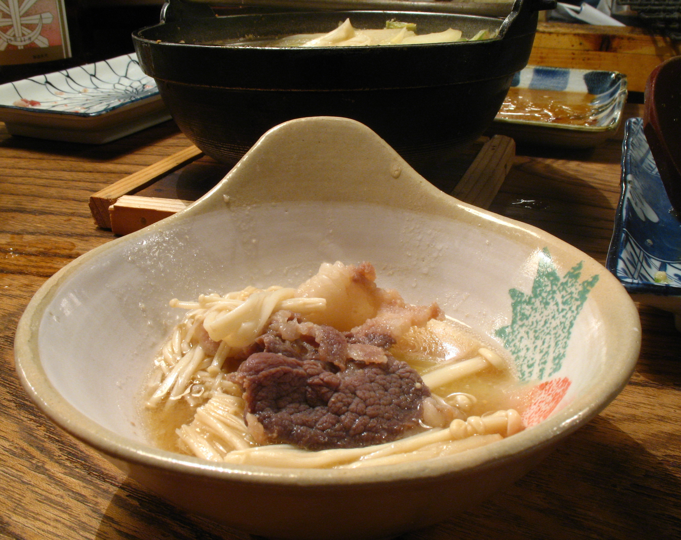 Japanese Bear soup.